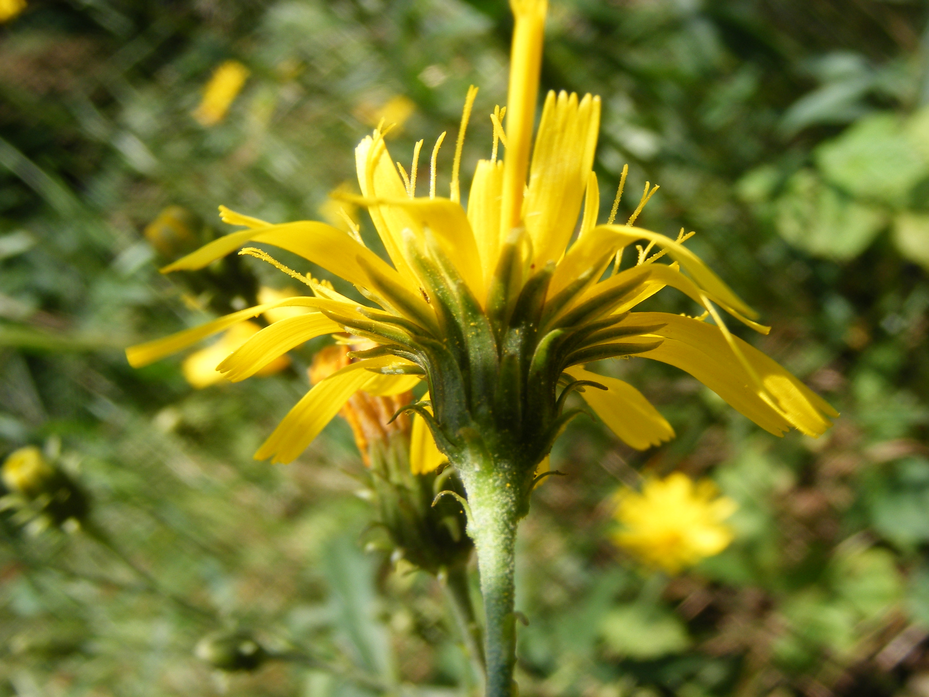 This photo shows Hieracium umbellatum. This photo shows the back of the flowerhead. I took this photo in Zelhem, NL.